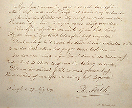 Verse written by Rhijnvis Feith.